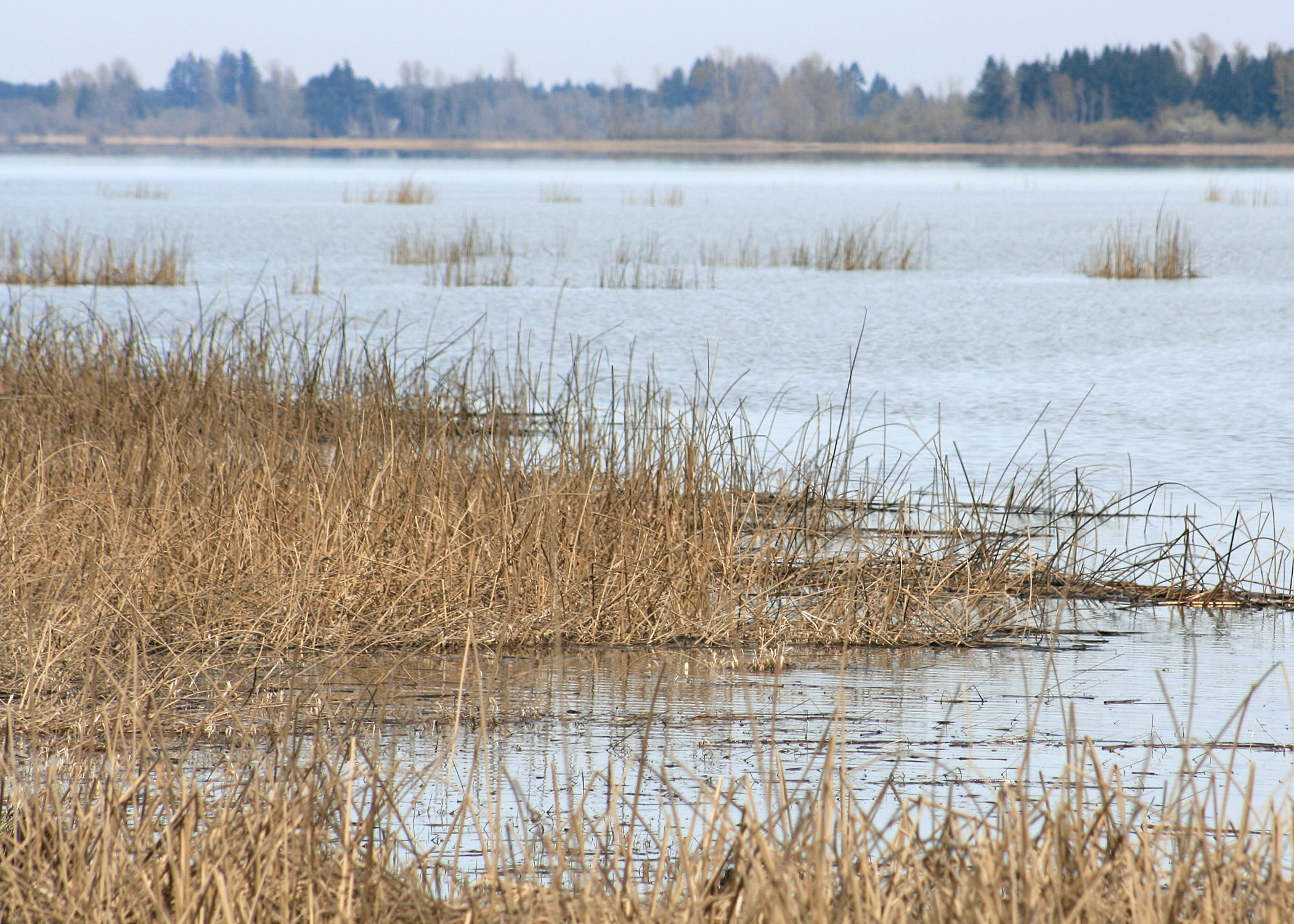 Wetlands in the Fern Ridge Wildlife Area at Fern Ridge Reservoir, which is created by a dam on the Long Tom River in Lane County, Oregon, United States